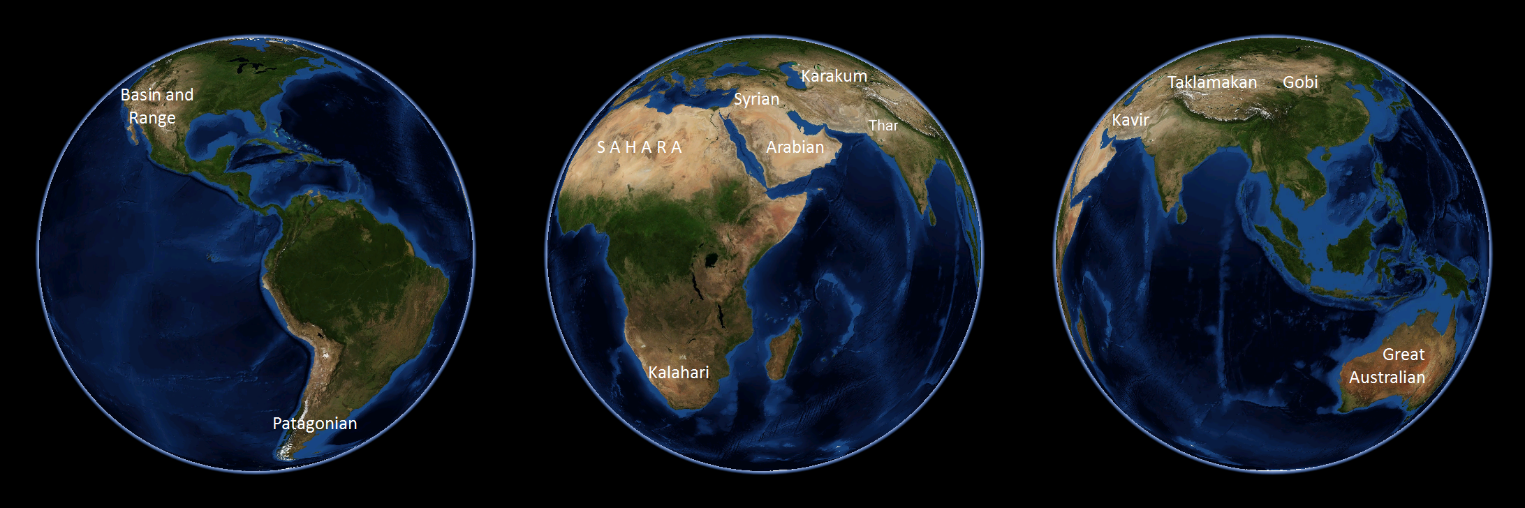 NASA World Wind 1.4 used. Note that the polar regions, not highlighted in this image, are the largest areas on the planet with little precipitation and are technically considered to be deserts themselves.